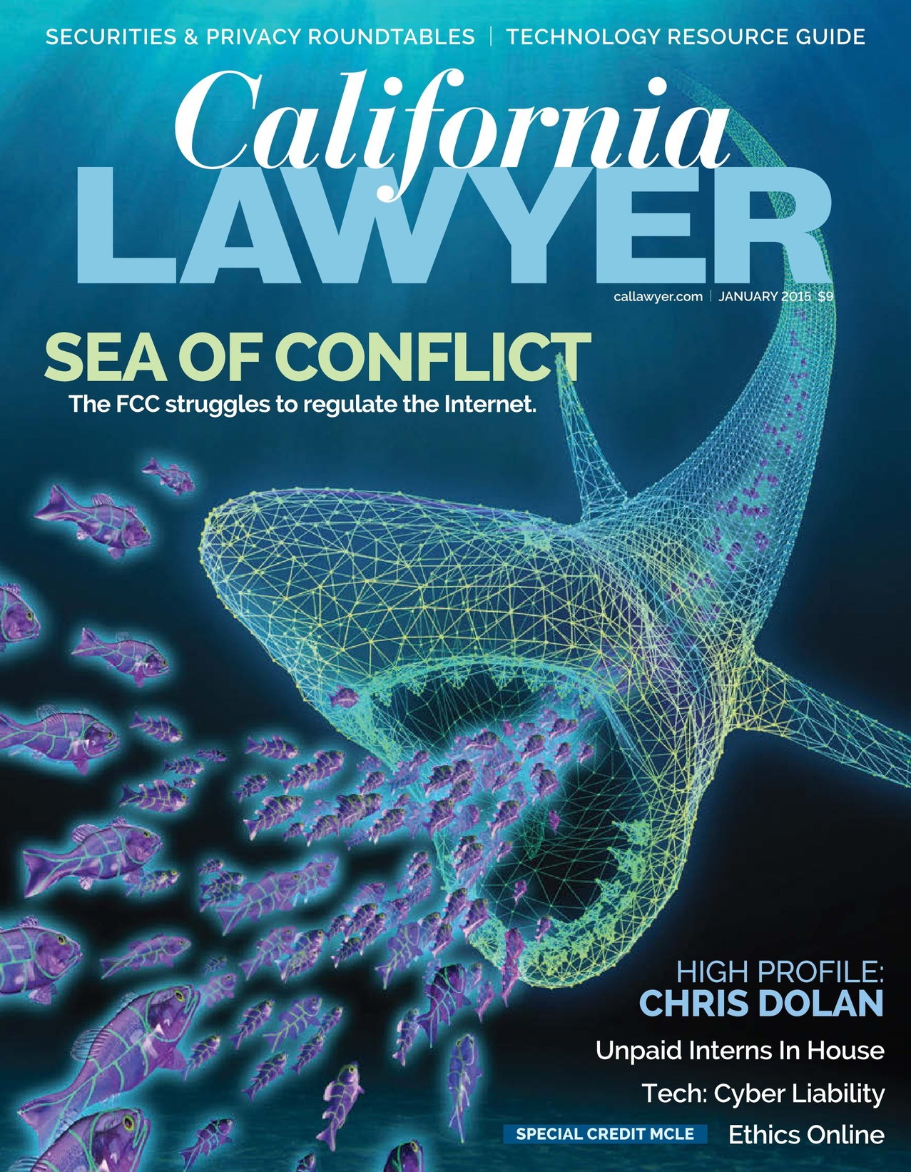 Cover illustration for "Uncommon Carriers," feature article by Michael Bobelian, p. 18